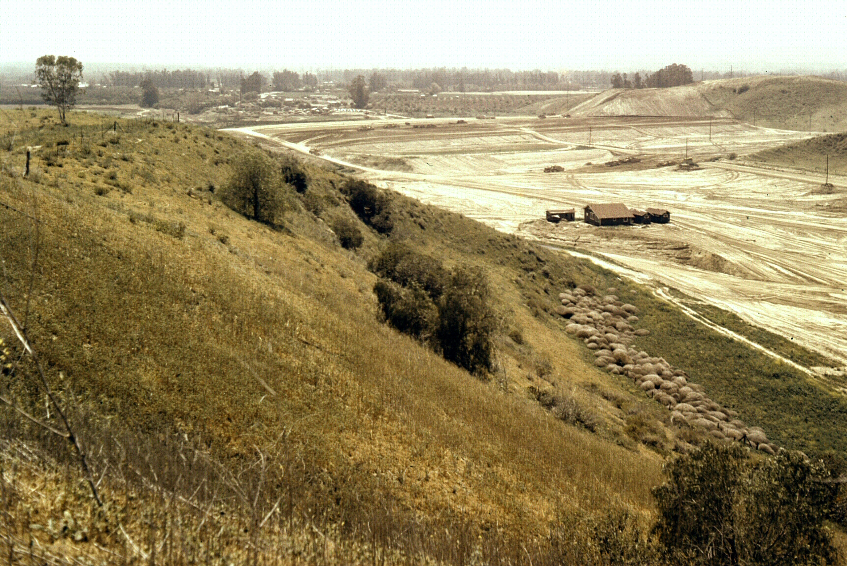 Photo shows the future site of Carbon Canyon dam, circa 1950s.